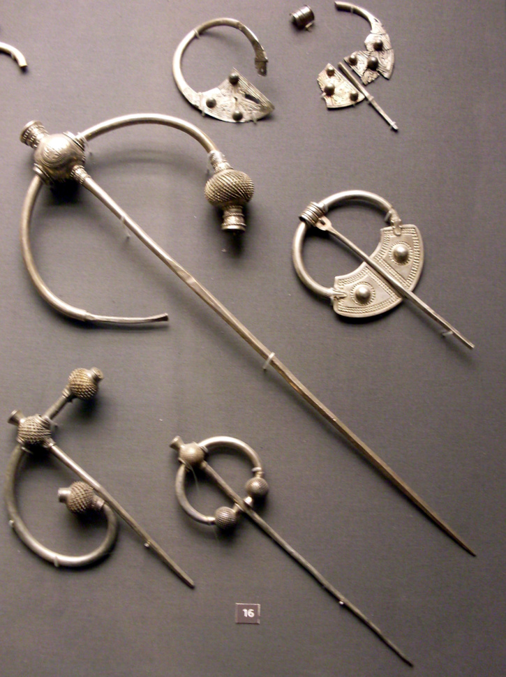 British Museum: Viking badges "The Penrith Hoard" (cropped & cleaned when loaded)